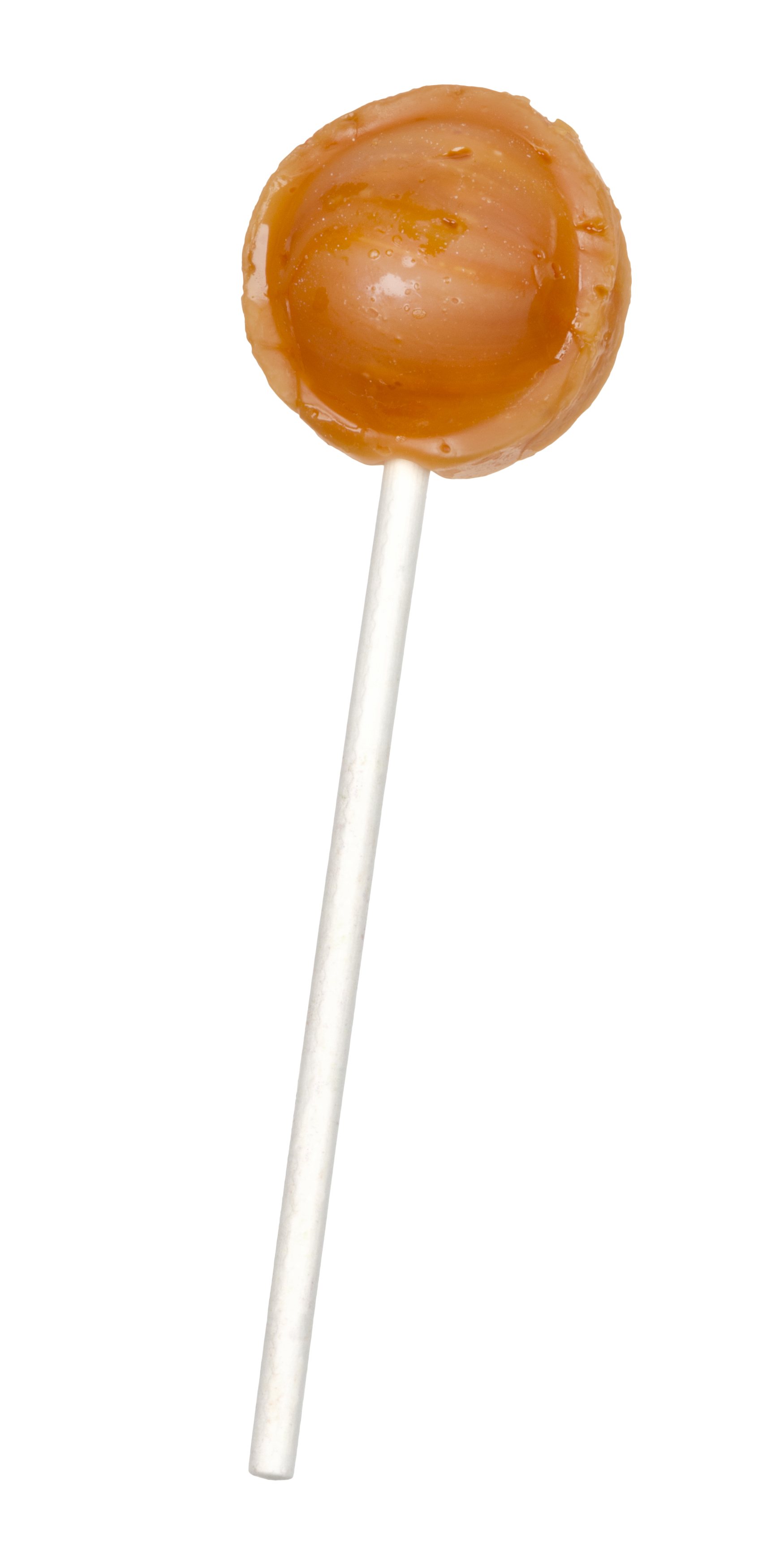 A orange-flavored Tootsie Roll Pop, a lollipop produced by Tootsie Roll that has a Tootsie Roll center and comes in a variety of flavors.